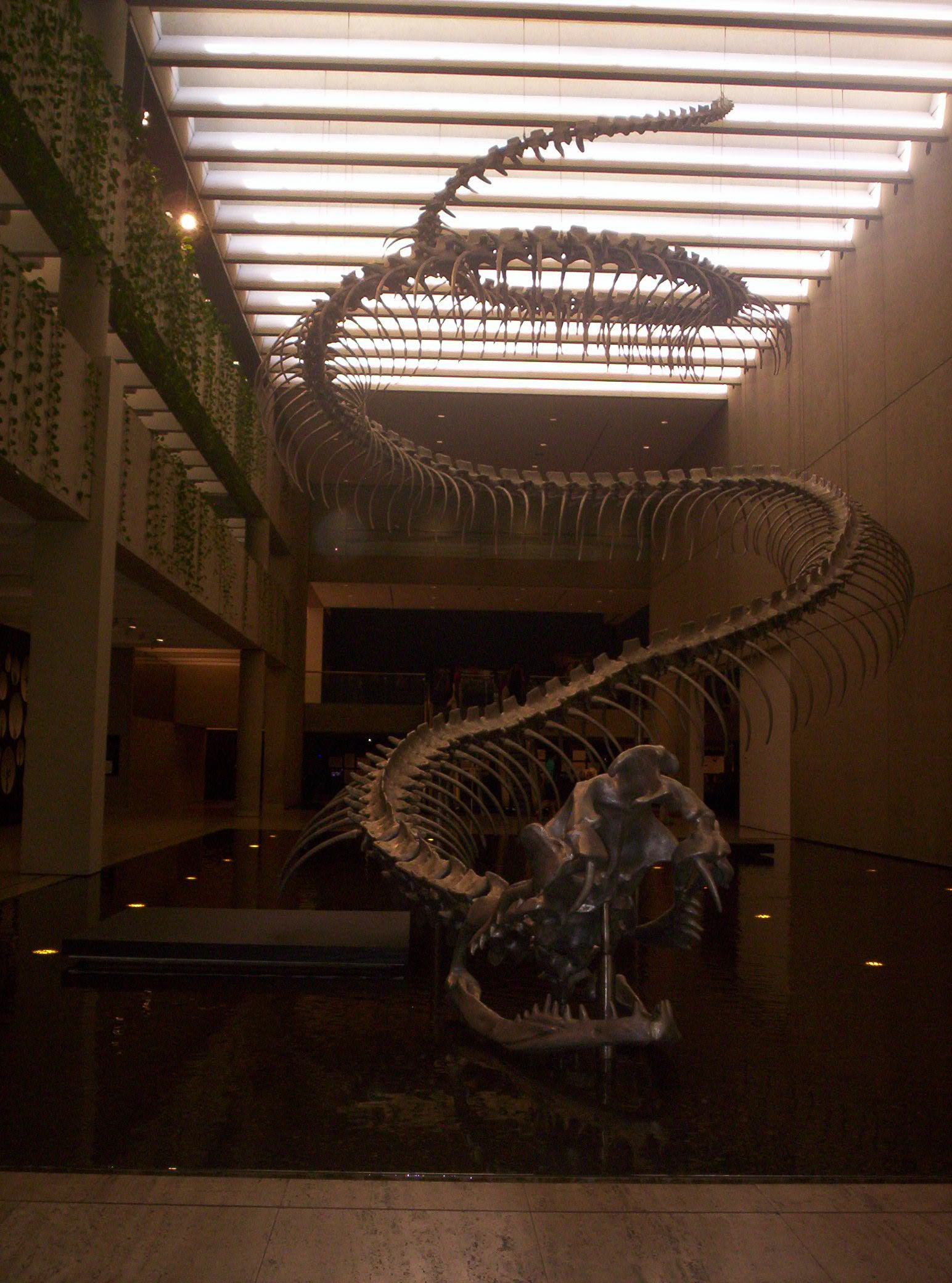 Sculpture of giant snake skeleton at the Queensland Art Gallery, South Bank, Queensland, Australia